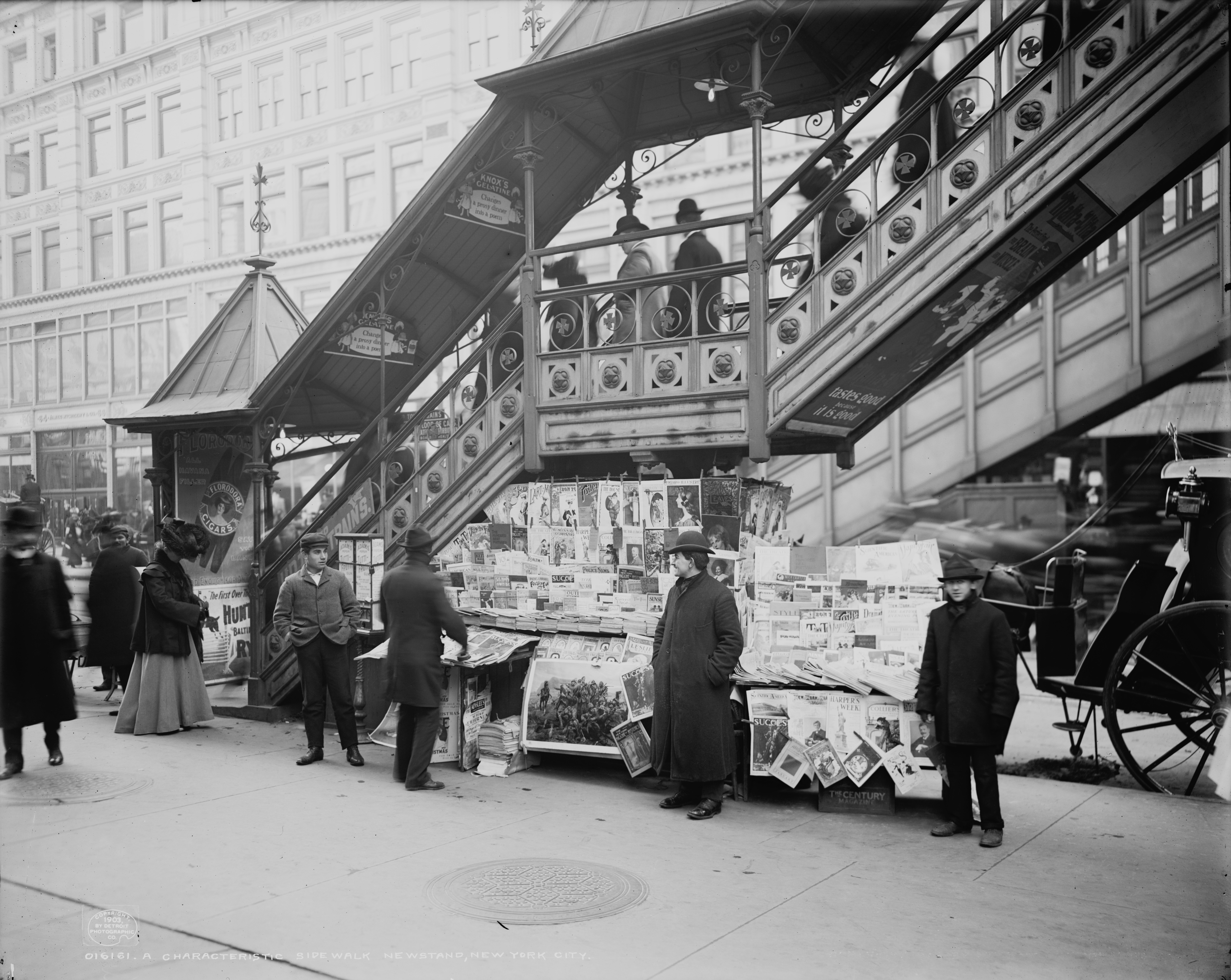 Characteristic sidewalk newsstand, New York City, c. late December 1902. Original title: A Characteristic sidewalk newstand [sic], New York City Location seems to be 23rd Street just east of Sixth Avenue, Manhattan. Stairs probably lead to "El" elevated transit line. Visible magazines on display are from late December 1902 and January 1903, so photo probably dates from around Christmas 1902 / New Year Day 1903. Note: Image discussed at [1] Note: Background is Mccreery office at 84 West 23d Street [2]